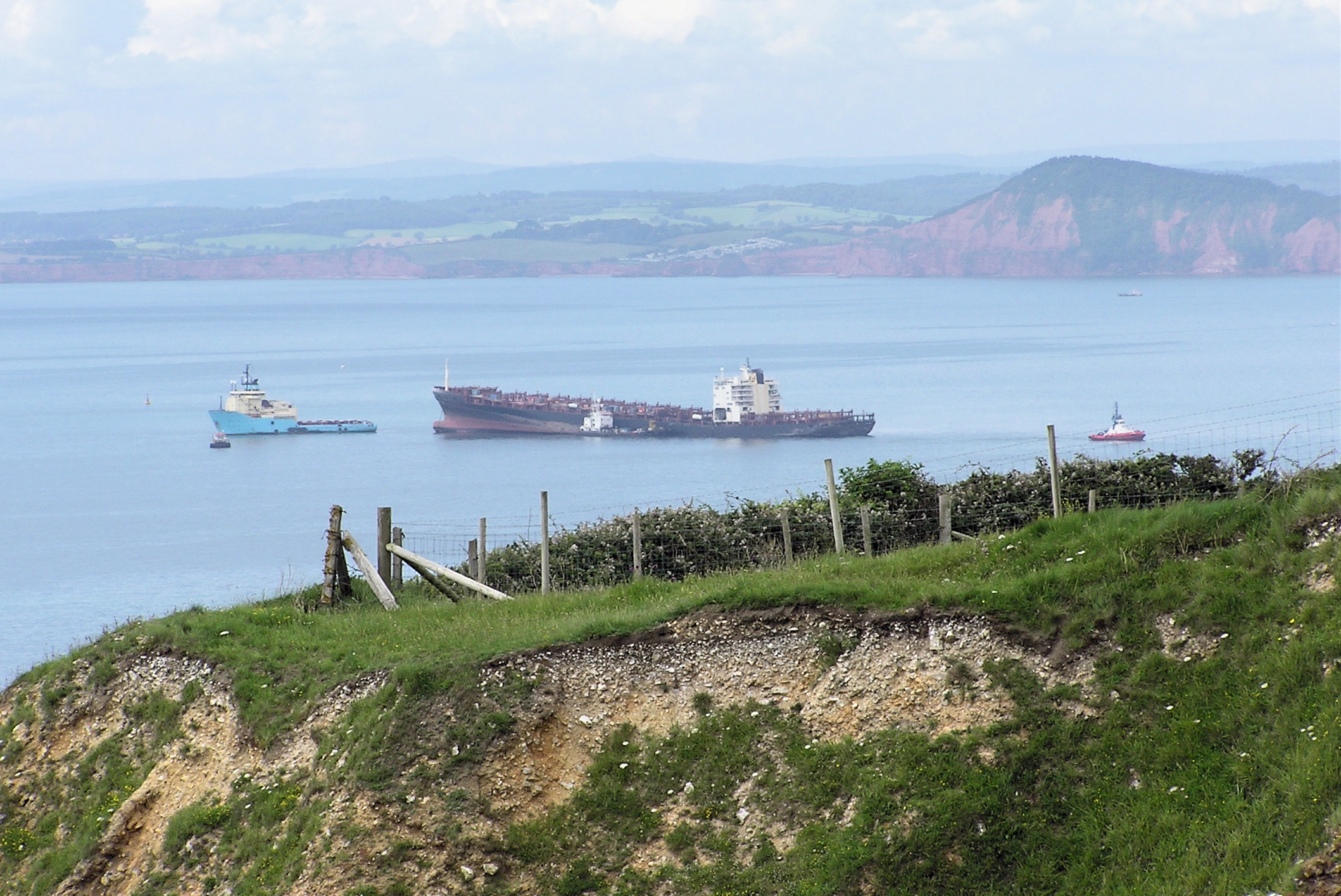 MSC Napoli aground in Lyme Bay, Dorset, England, photographed on 20th July 2007 from the cliffs between Beer and Branscombe. IMO Number: 9000601 MMSI Number: 235004790 Callsign: VQBX7 Length: 276 m Beam: 37 m